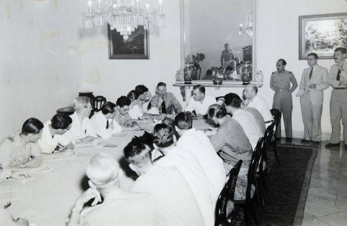 Press conference held by lieutenant governor general H.J. van Mook, informing journalists about the start of the First Police Action